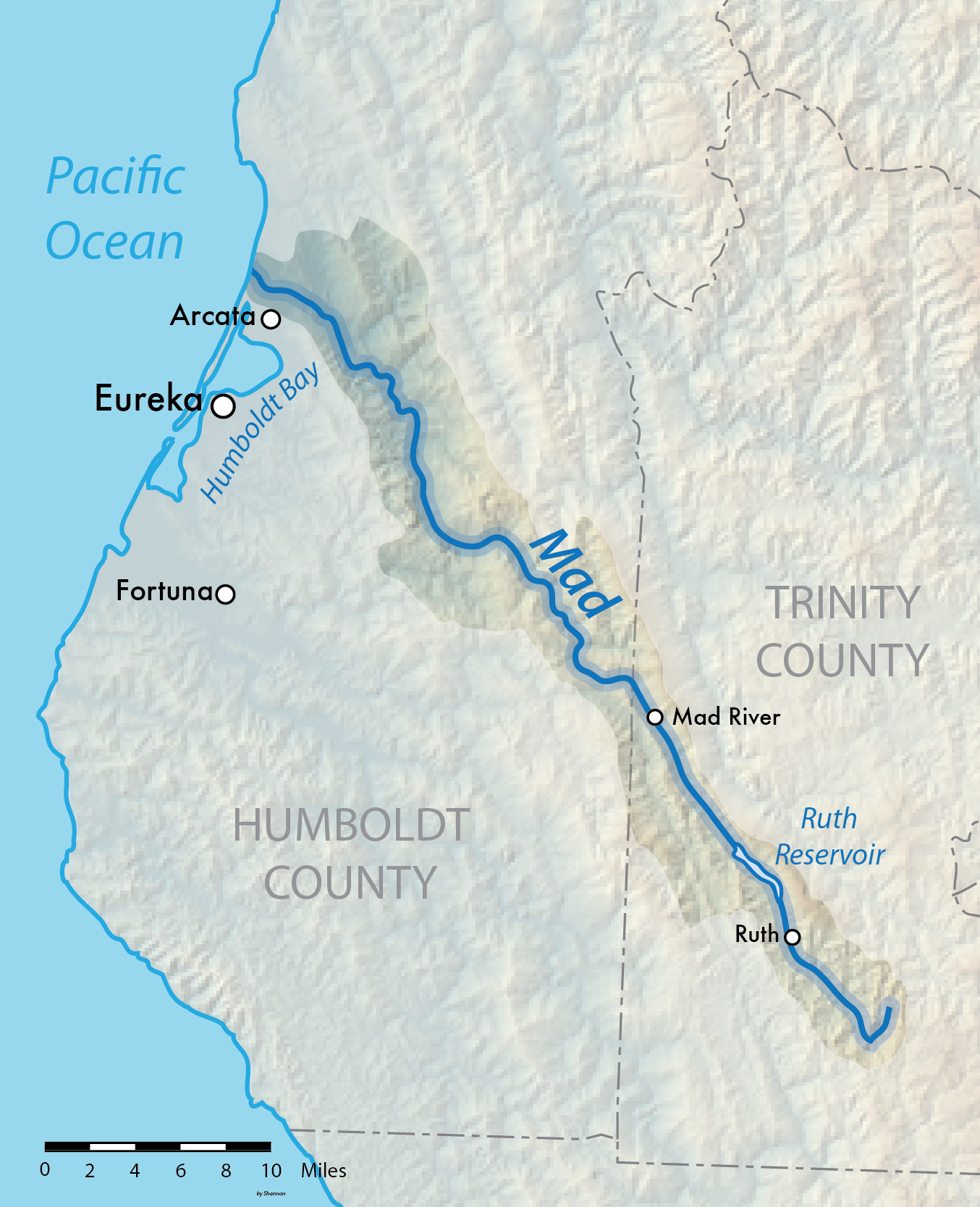 Map showing the Mad River in NW California, USA. Shaded relief from US Geological Survey.